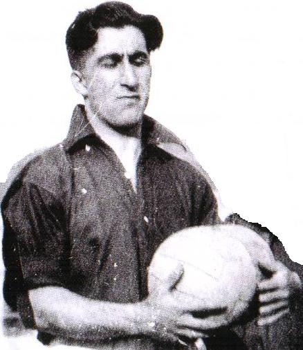 Nihat Bekdik - "Nihat The Lion"